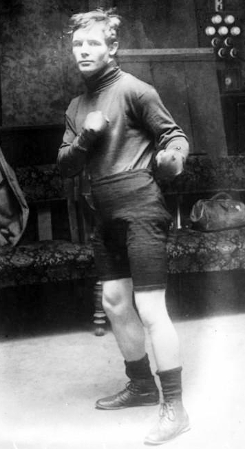 English boxer Johnny Summers (1882-1946) posing in 1909